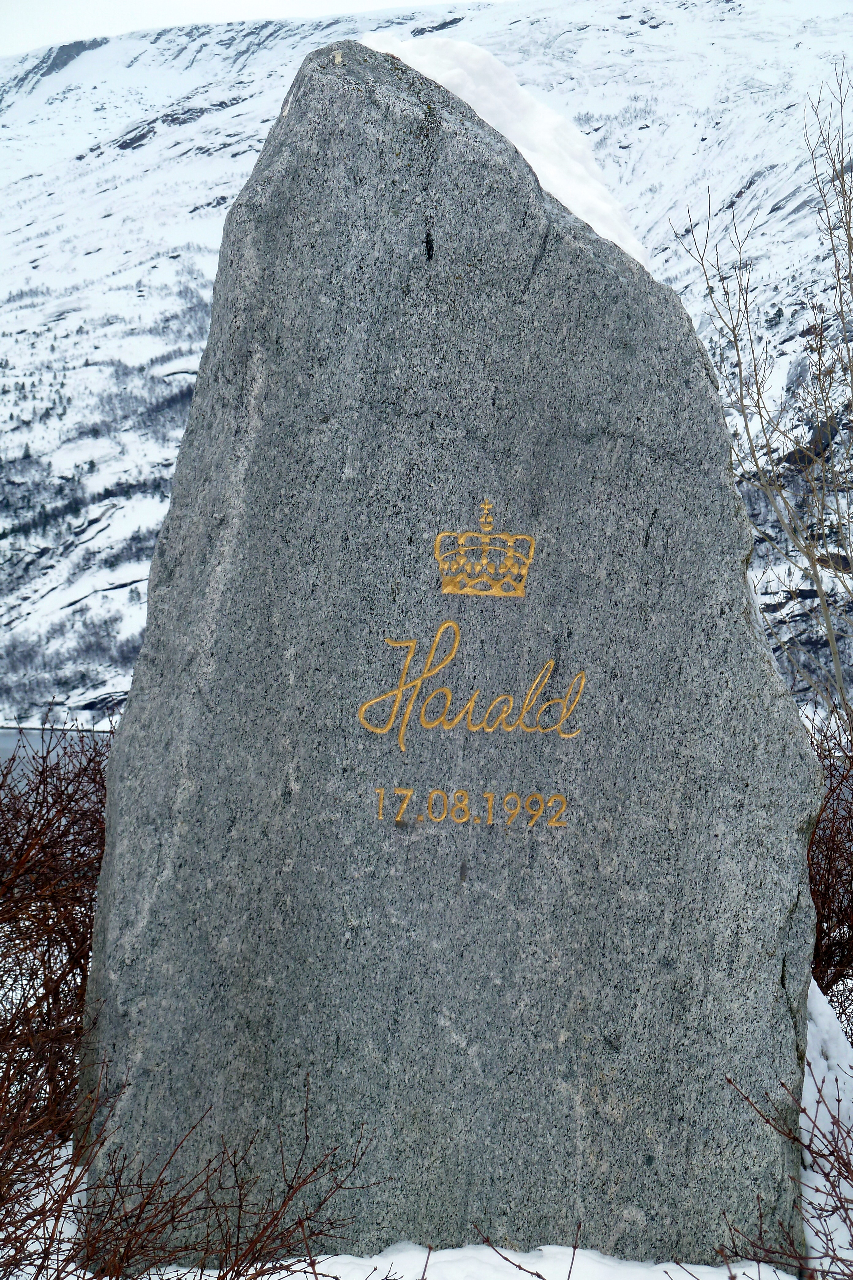 County Road 827 between Kjøpsvik and Europe Road 6 at Sætran in Nordland, Norway was officially opened by King Harald V August 17. 1992.